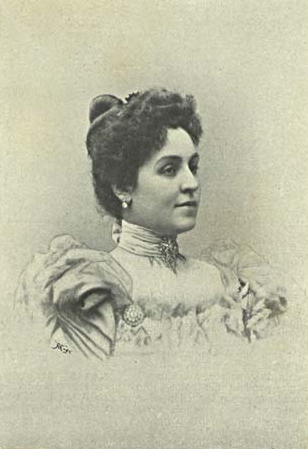 Madame Charles Rouvier (née Achillopulo), wife of the French Minister in Lisbon.